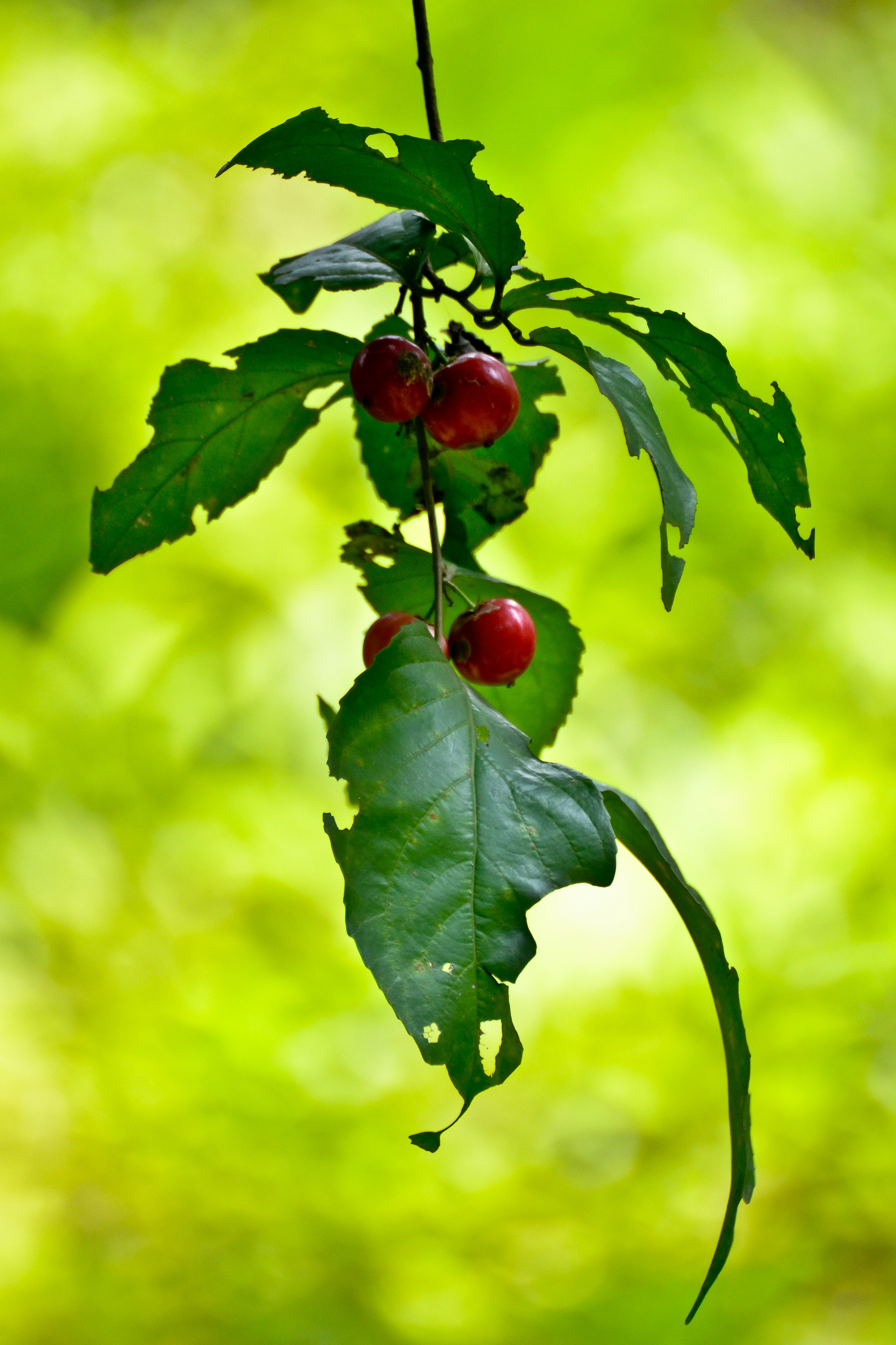 Fruits of Flacourtia inermis, also called Lovi-lovi or Batoko Plum